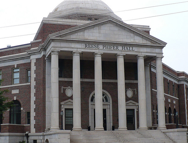 University of Alabama's Home of its College of Communication and Information Sciences